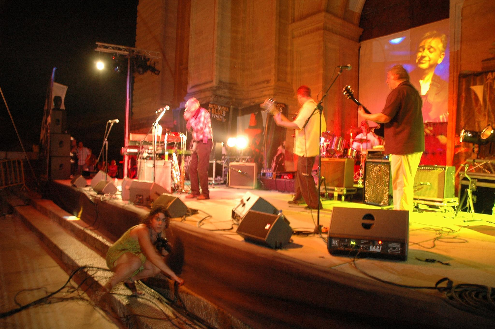 Antequera Blues Festival 2007, Spain